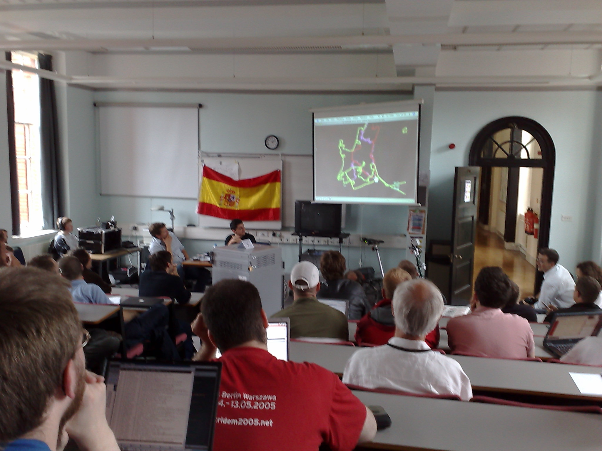 State of the Map 2007. The first international OpenStreetMap conference (Manchester, UK). In the talk "The State of Spain" explained how the National Geographic Institute collaborates with OSM, and the future of OSM in Spain.